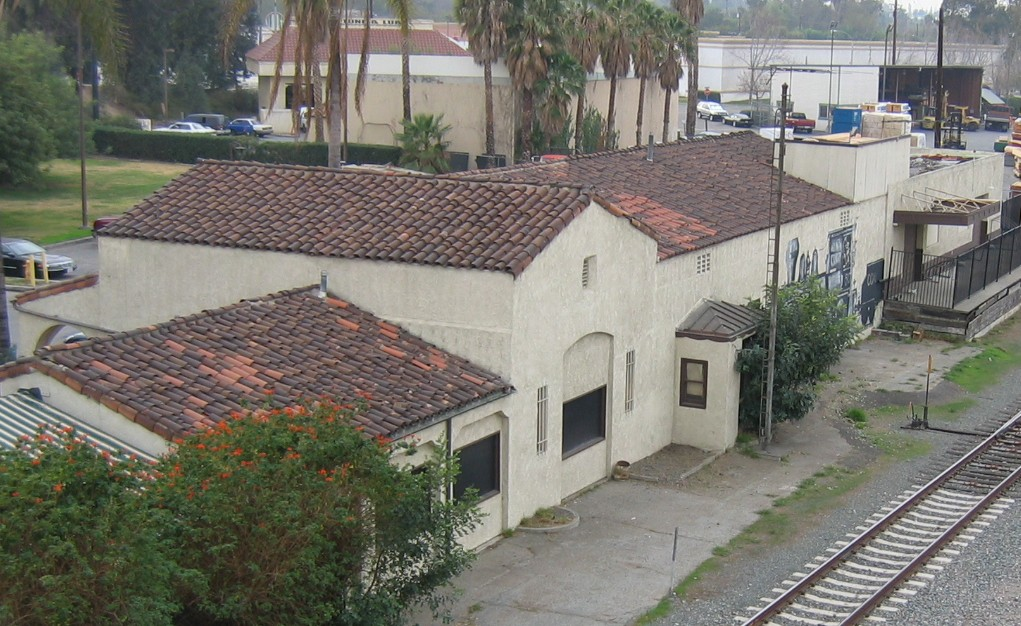 Santa Fe station in Corona, CA built in 1937. Now a restaurant & bar (with a really bad roof).